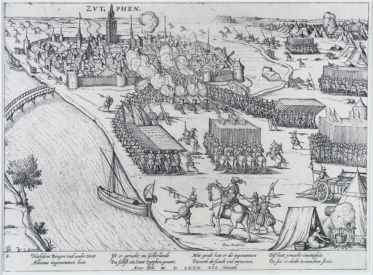 The capture of Zutphen by Fadrique Álvarez de Toledo on November 16, 1572. Afterwards, he would cause a massacre in the city. Etching. Rotterdam, Museum Boijmans Van Beuningen (inv.no. BdH 26247 (PK)).